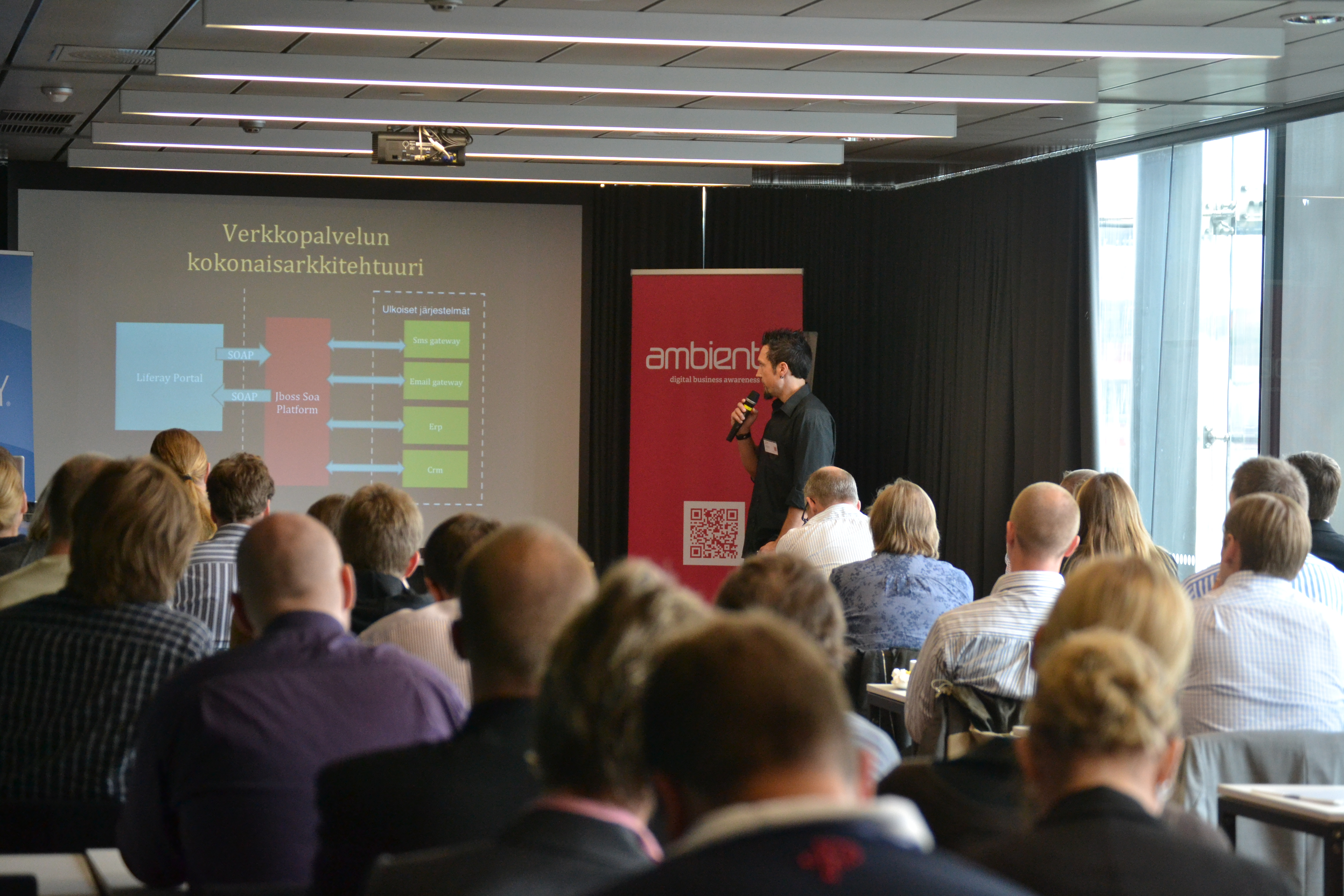 Liferay Road Show on Musiikkitalo in September 2012. Senior Project Manager Sami Pippuri from Ambientia is presenting the case Uponor KOTI.